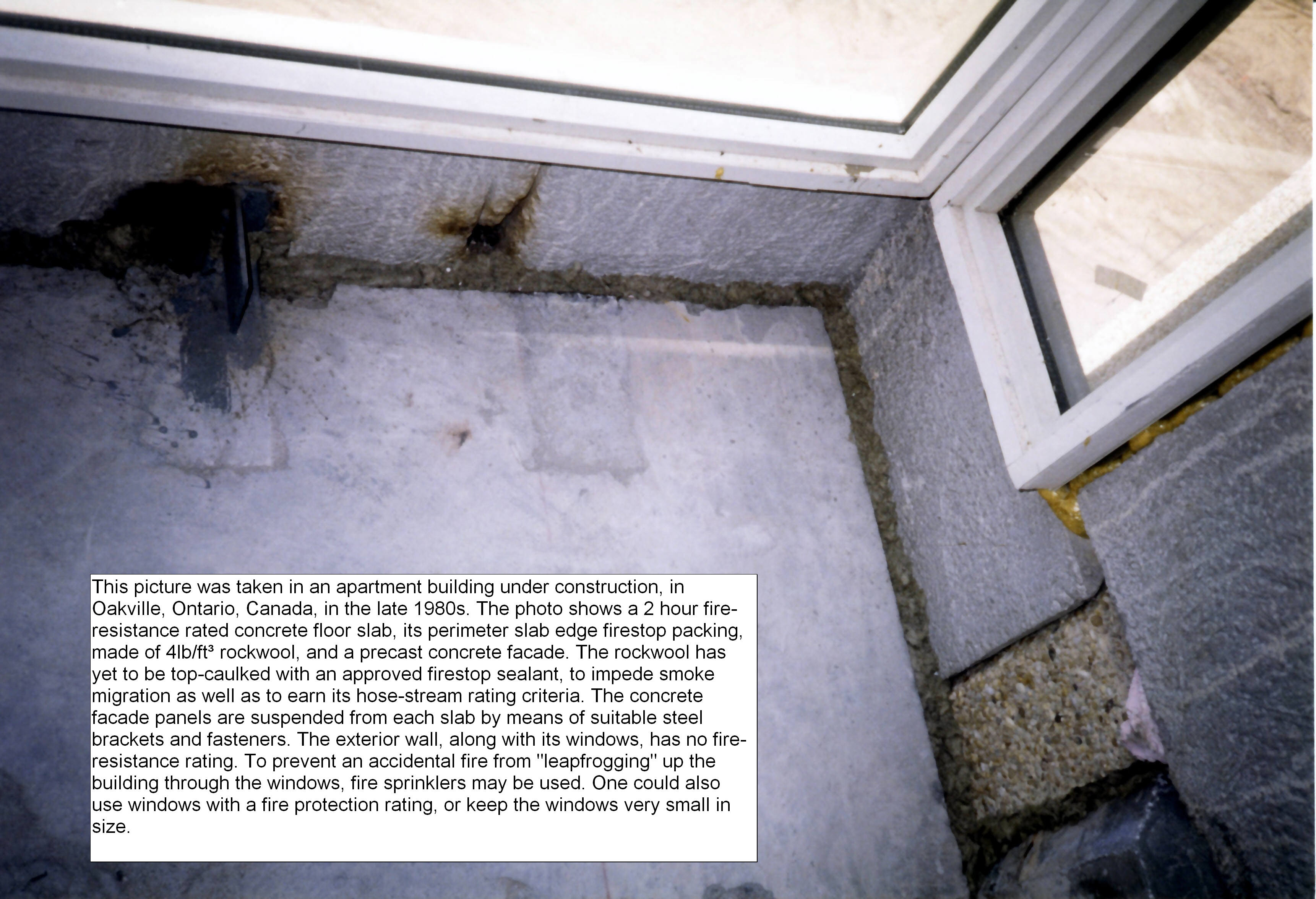 Suspended Precast Concrete Facade with Perimeter Slab Edge Firestop